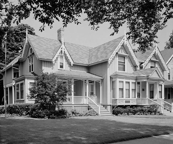 Frances E Willard House, 1730 Chicago Avenue, Evanston (Cook County, Illinois) cropped This file comes from the Historic American Buildings Survey (HABS), Historic American Engineering Record (HAER) or Historic American Landscapes Survey (HALS). These are programs of the National Park Service established for the purpose of documenting historic places. Records consist of measured drawings, archival photographs, and written reports. This tag does not indicate the copyright status of the attached work. A normal copyright tag is still required. See Commons:Licensing. This work is in the public domain in the United States because it is a work prepared by an officer or employee of the United States Government as part of that person’s official duties under the terms of Title 17, Chapter 1, Section 105 of the US Code. Note: This only applies to original works of the Federal Government and not to the work of any individual U.S. state, territory, commonwealth, county, municipality, or any other subdivision. This template also does not apply to postage stamp designs published by the United States Postal Service since 1978. (See § 313.6(C)(1) of Compendium of U.S. Copyright Office Practices). It also does not apply to certain US coins; see The US Mint Terms of Use. This file has been identified as being free of known restrictions under copyright law, including all related and neighboring rights.